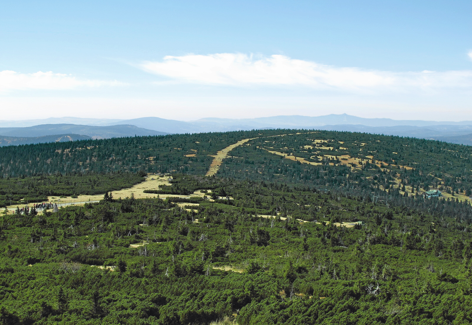 Luboch from Szrenica in the Krkonoše Mountains